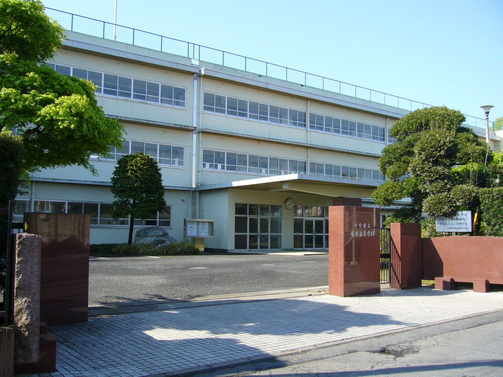 Sawara high school,katori-city,japan